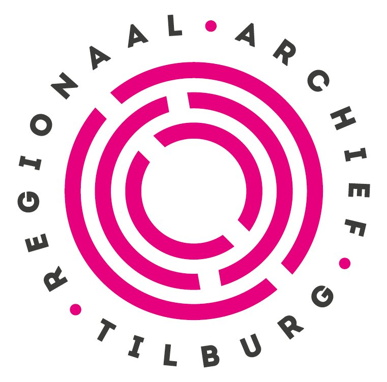 Logo Regional Archive Tilburg